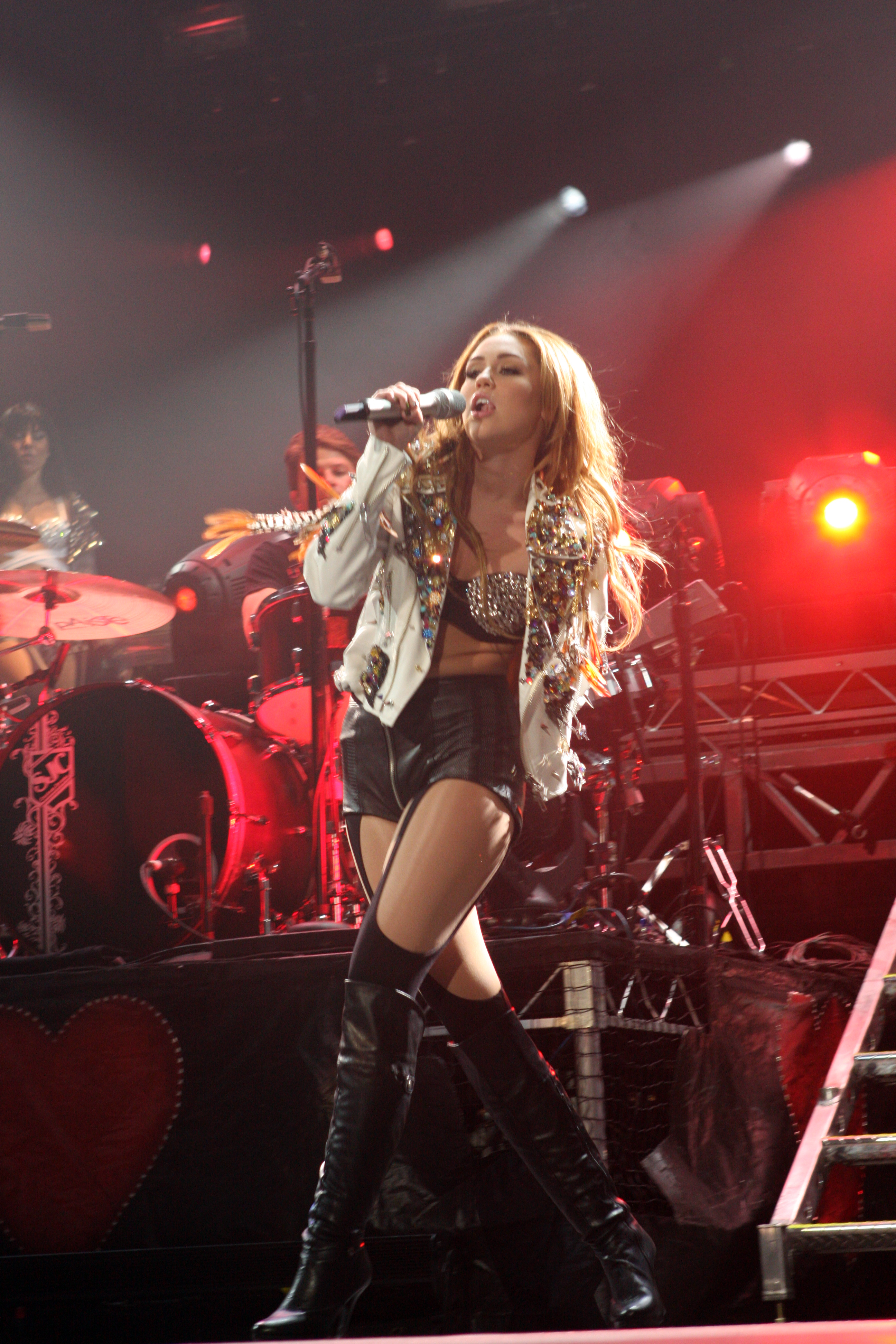 Pop singer Miley Cyrus performing in Sydney, Australia as part of her Gypsy Heart Tour.